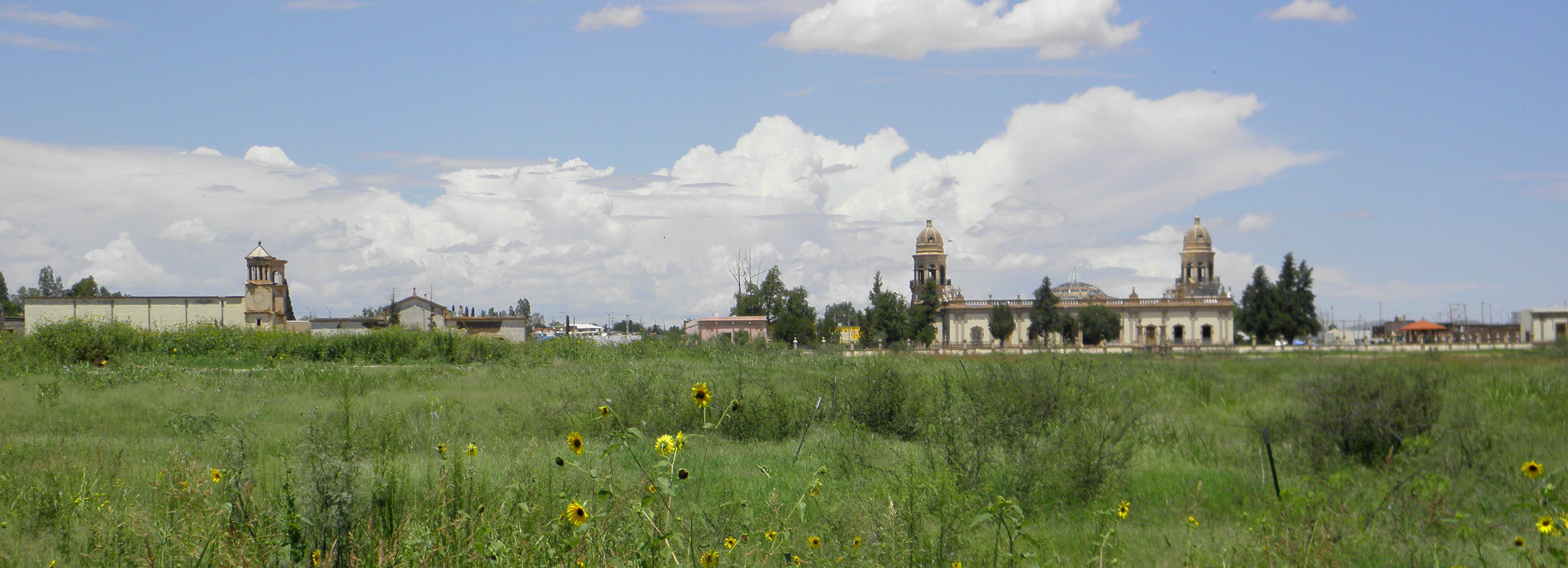 Panorama of the Quinta Carolina, summer home of former governor and millionaire Luis Terrazas, Chihuahua, Chih, Mexico. Ruined since the Revolution, it is now being restored, with completion scheduled for 2012.